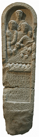 Galician Celtic Stele for the deceased, called Apana, presumably an aristocrat of the tribe of Celtic Supertamáricos. Second Century of the Common Era.